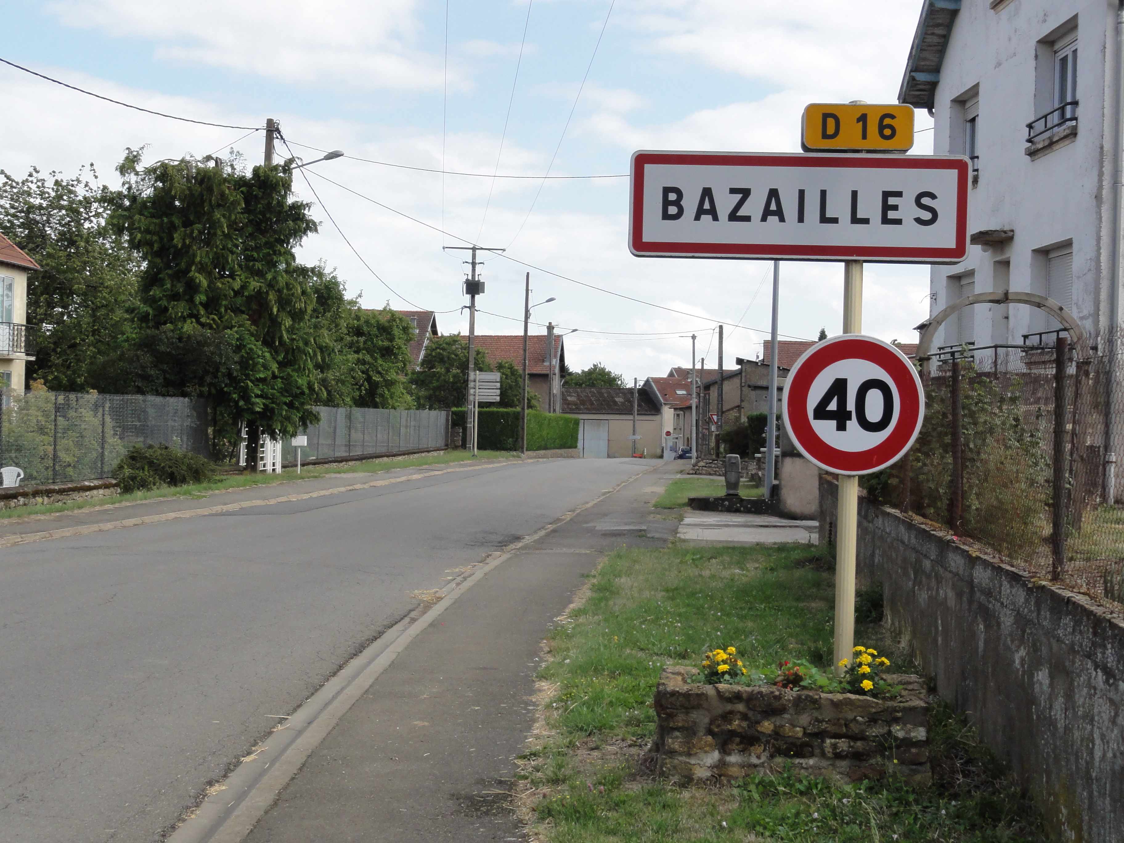 Bazailles (Meurthe-et-M.) city limit sign